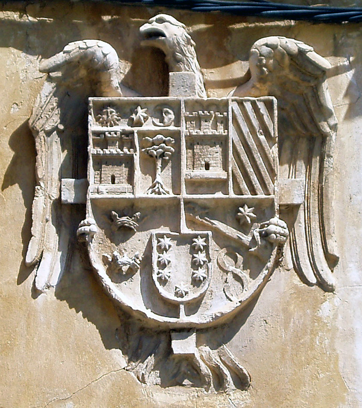 Coat of arms in Miralrío Palace, in Guadalajara, Spain.